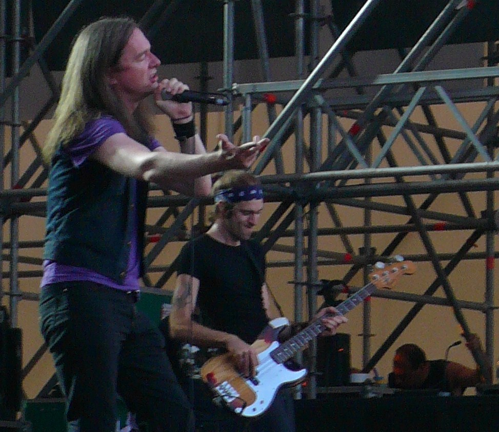 Lee Dorrian and Leo Smee of Cathedral.